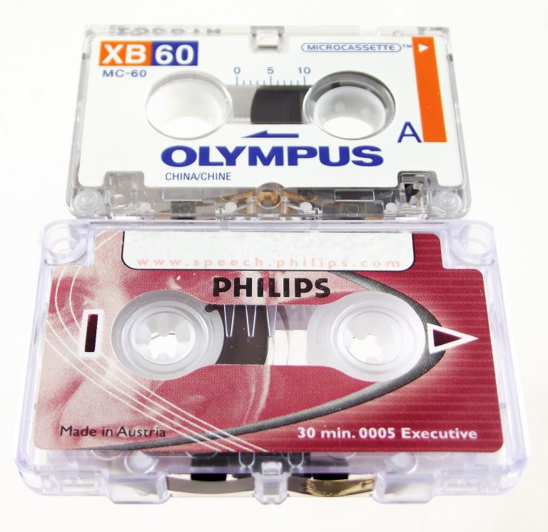 The microcassette and minicassette audio formats